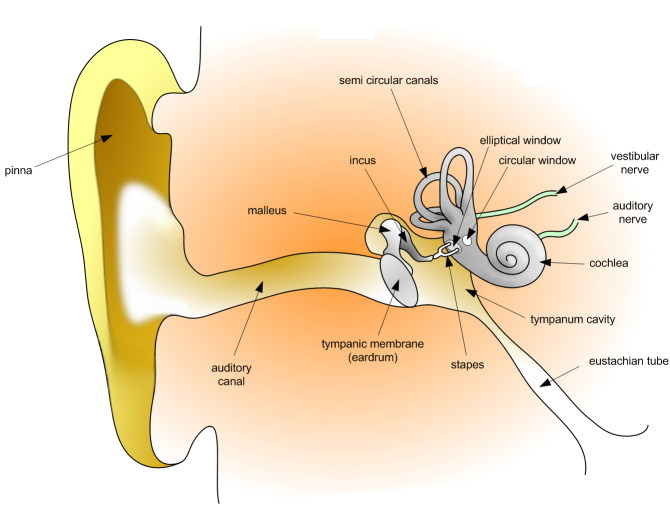 Anatomy of the Human Ear